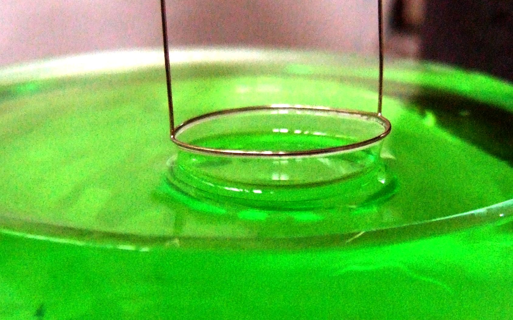 Pt-Ir ring of a Du Nouy tensiometer.